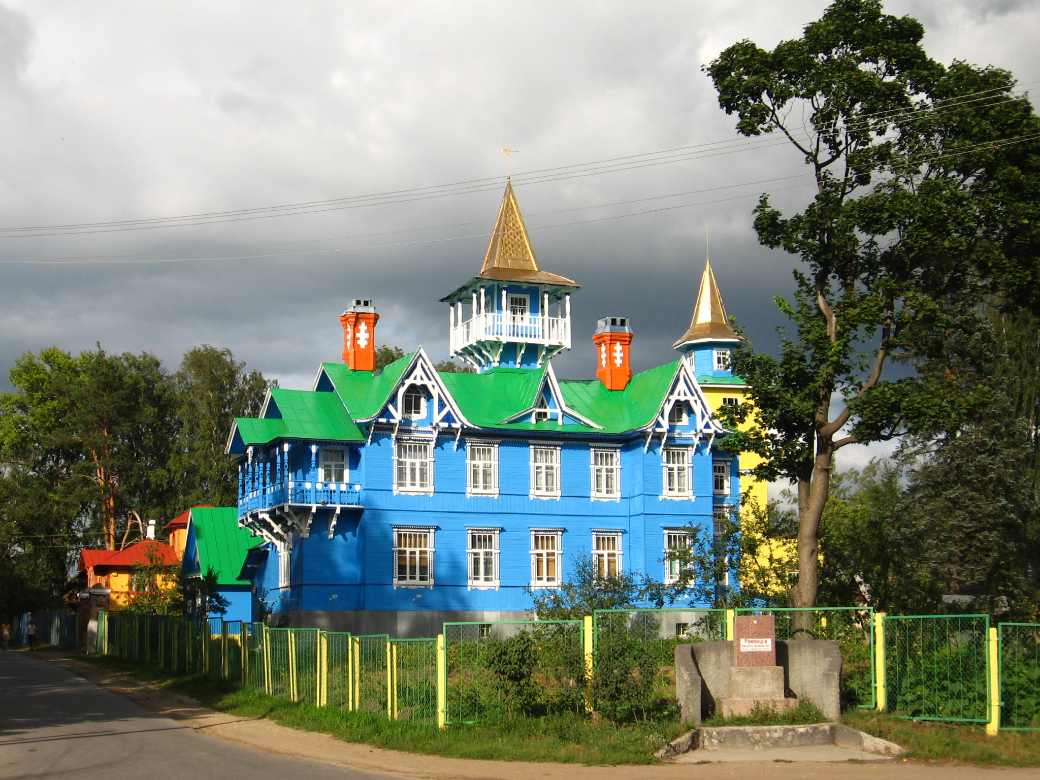 House in Vyritsa, built by Ivan Churikov in 1906 for his Brethren Teetotalers